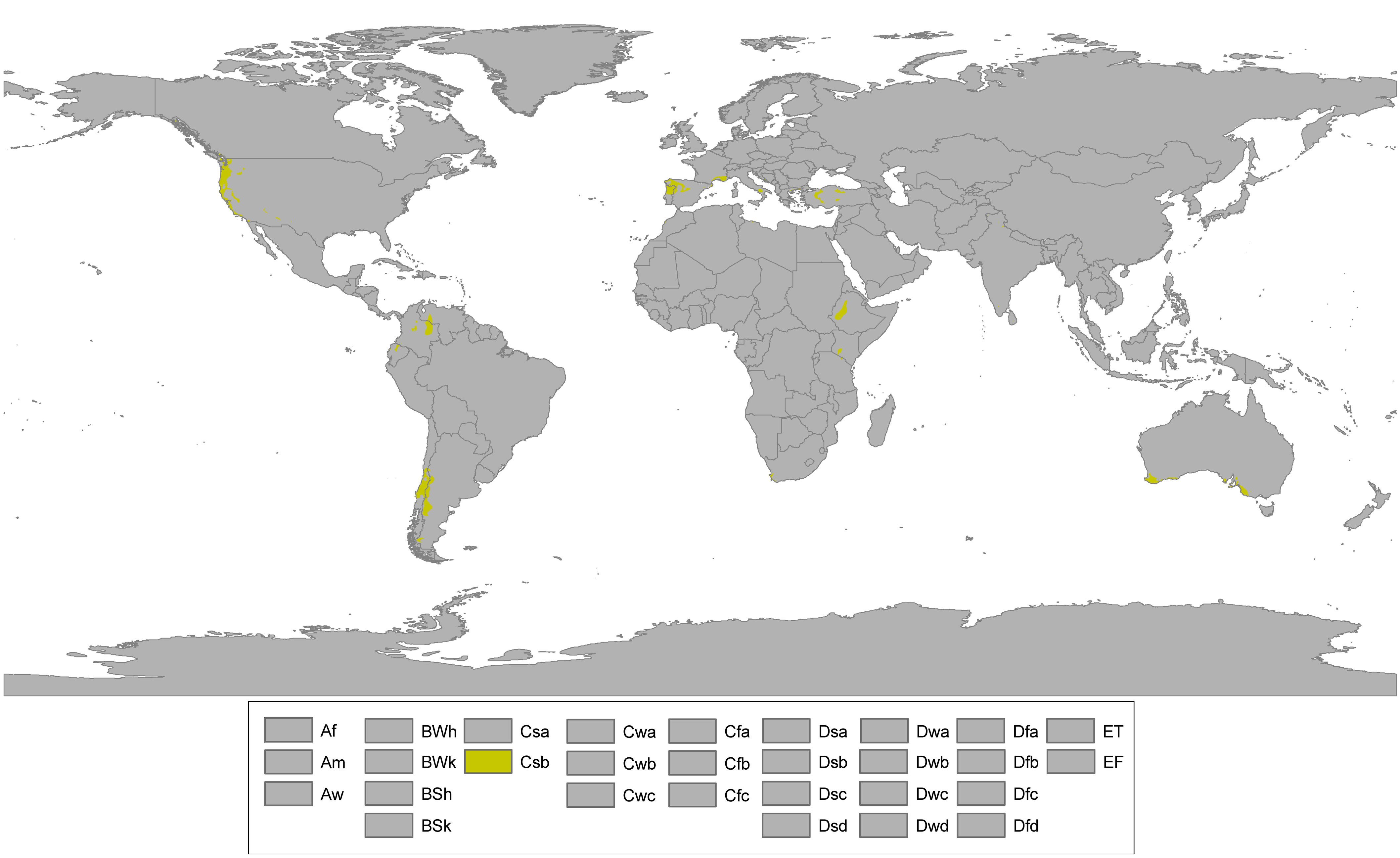 Updated world map of the Köppen-Geiger climate classification. Warm-summer Mediterranean climate (Csb)